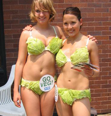 PETA "Lettuce Ladies" in the Short North, Columbus, Ohio